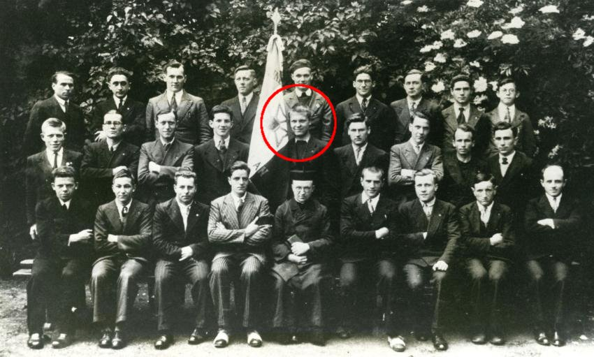 School photo of Maurice Bavaud (in red circle), Swiss activist who attempted to assassinate Adolf Hitler in 1938. He was executed in 1941.